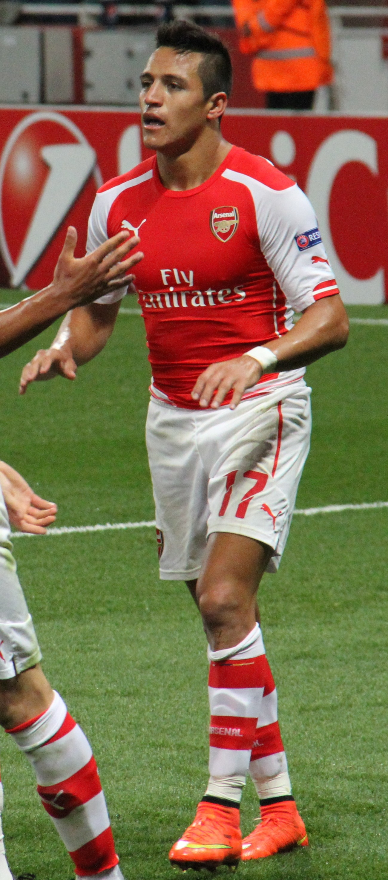 Alexis Sanchez playing for Arsenal in UEFA Champions League play-off against Besiktas in 2014